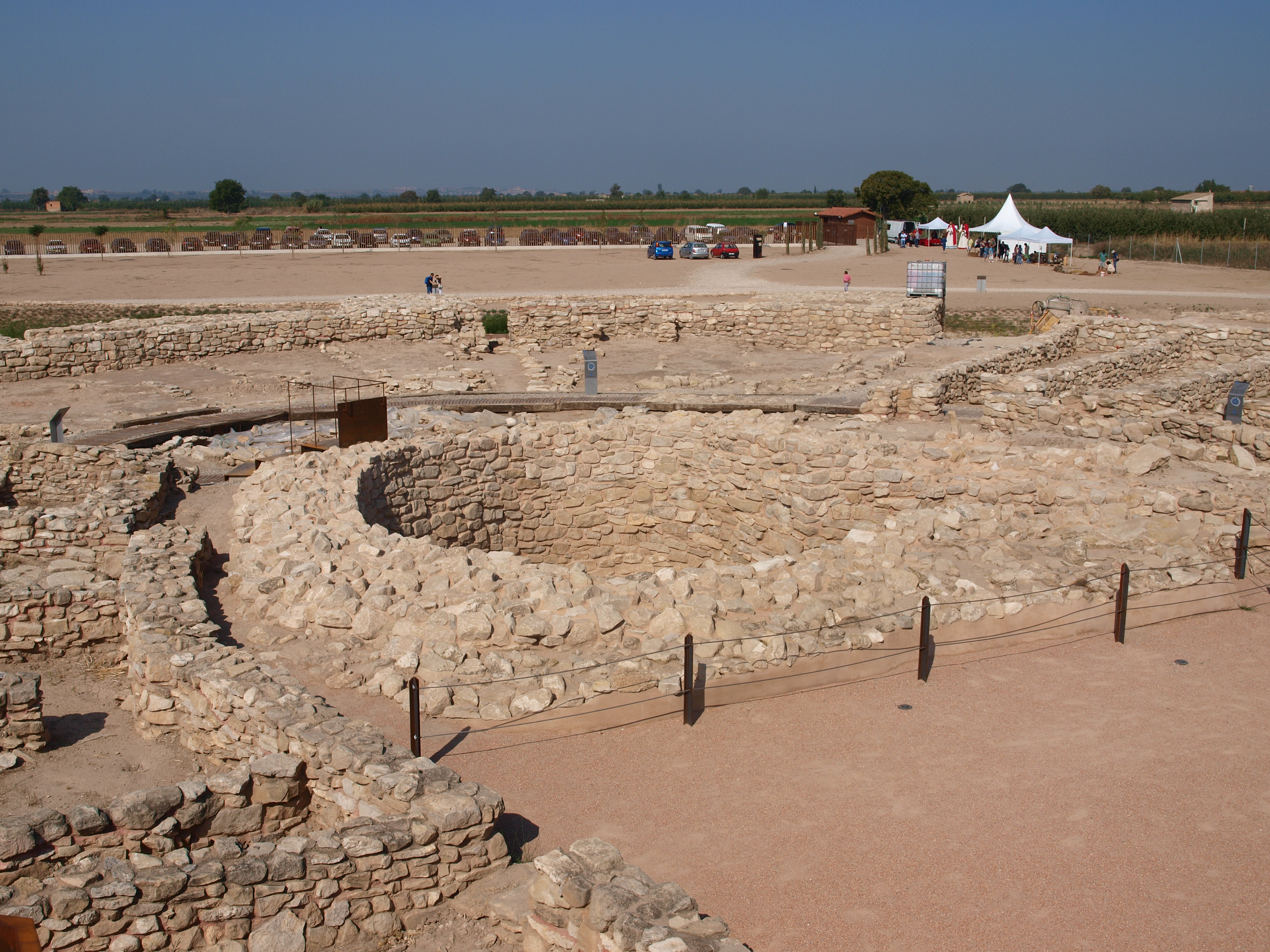 "Els Vilars" Iberian site. Western view